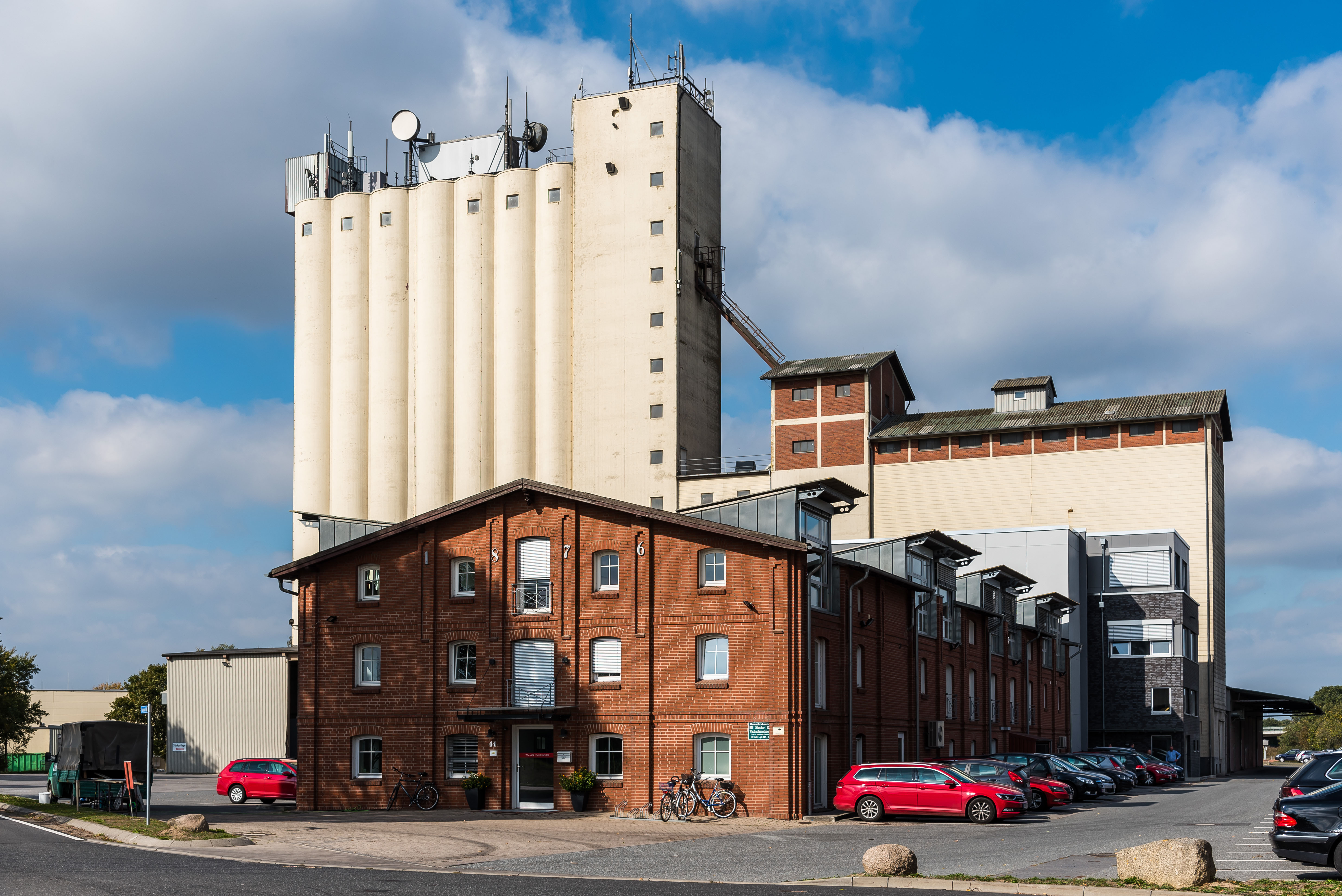 Facilities, including a grain elevator, of ATR Landhandel, an agricultural trading company in Ratzeburg, Herzogtum Lauenburg, Schleswig-Holstein, Germany.